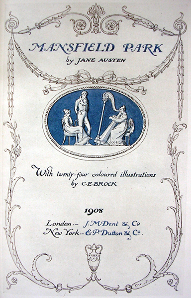 Title Page of Mansfield Park, in the Series of English Idylls, published by J.M Dent & Co. (London) and E.P. Dutton & Co. (New York)